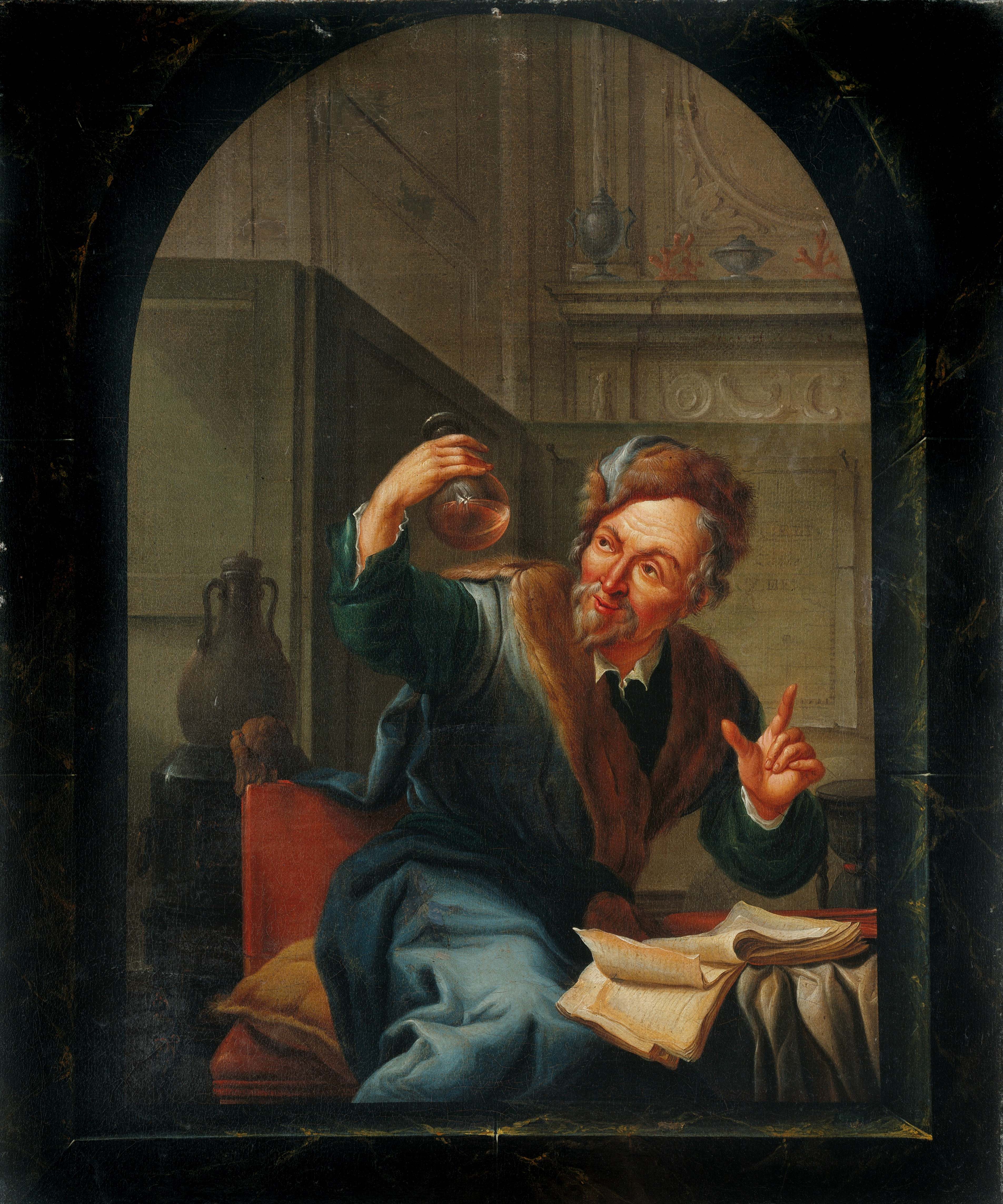 A physician or alchemist examining a flask at a casement. Oil painting by Willem Joseph Laquy. Iconographic Collections Keywords: Pharmacy; Urology; Willem Joseph Laquy